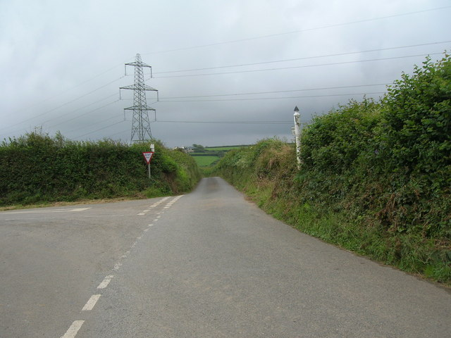 Junction above Trewethen Trewethen is to the left